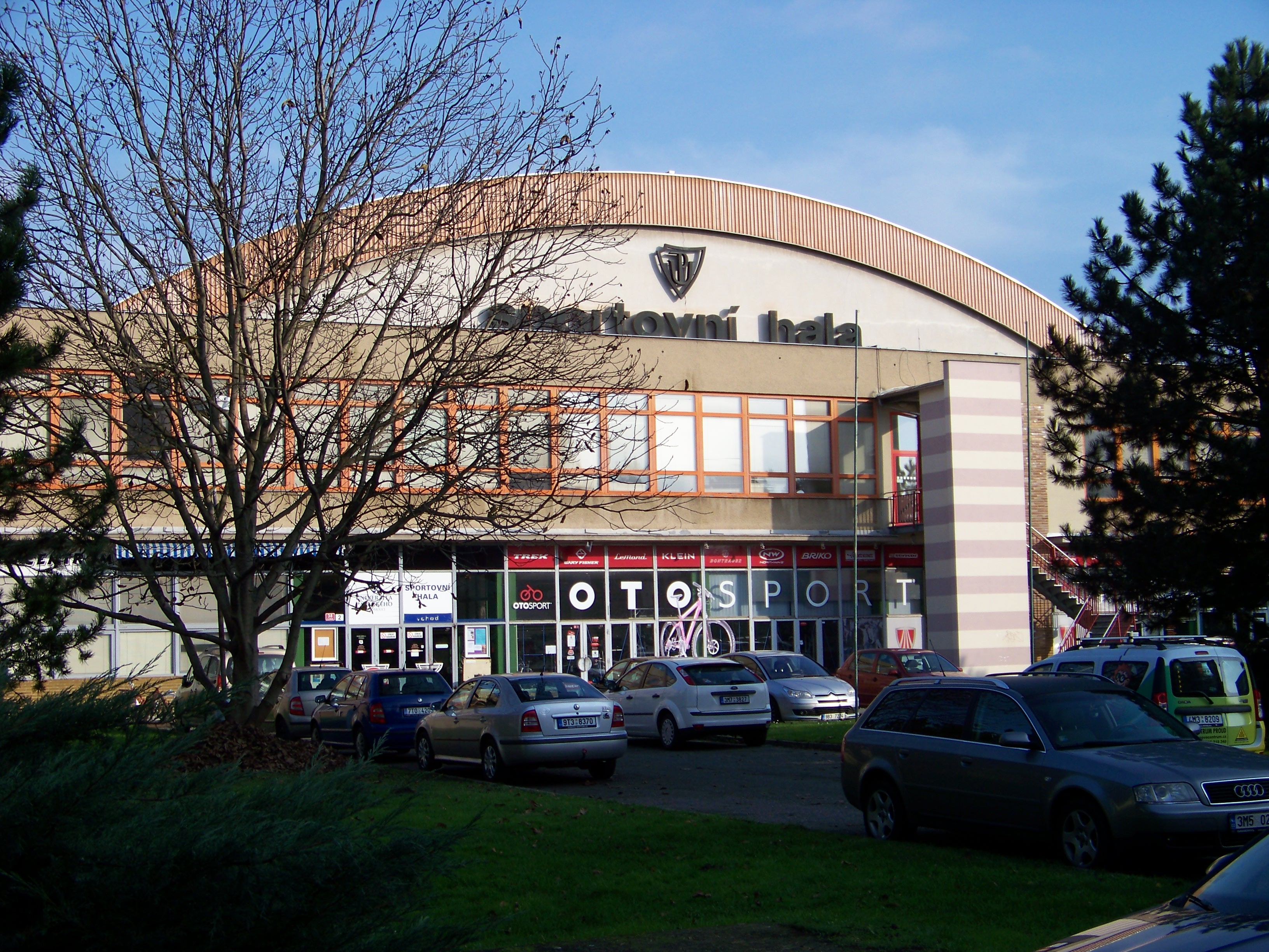 Olomouc-Lazce, Olomouc District, Olomouc Region, Czech Republic. U sportovní haly 38/2, a sport hall.